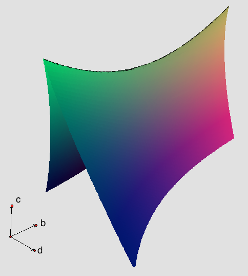 The zero set of the Discriminant of a cubic surface.